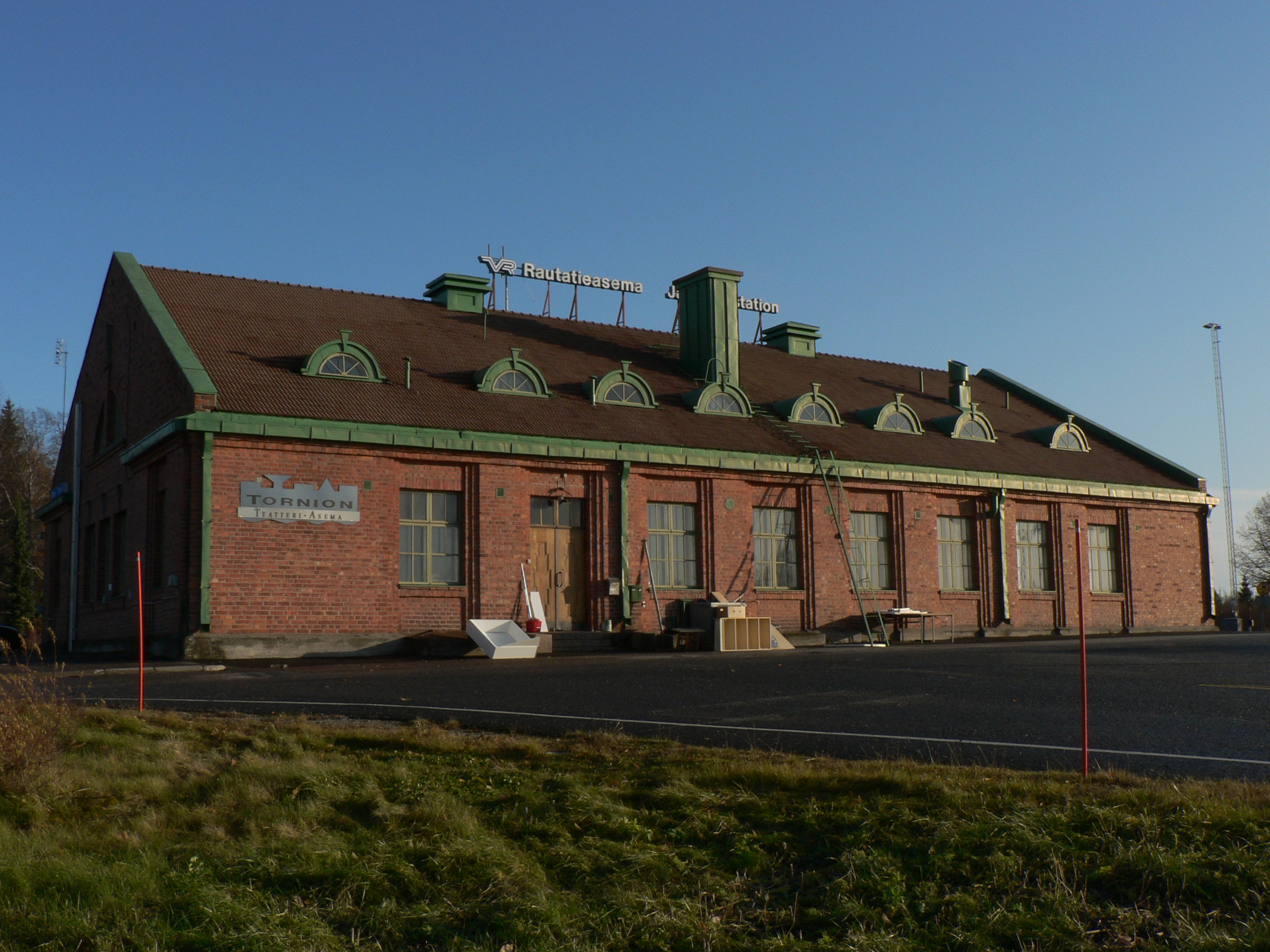 Tornio railway station (abbrev. Tor) in Tornio, Finland